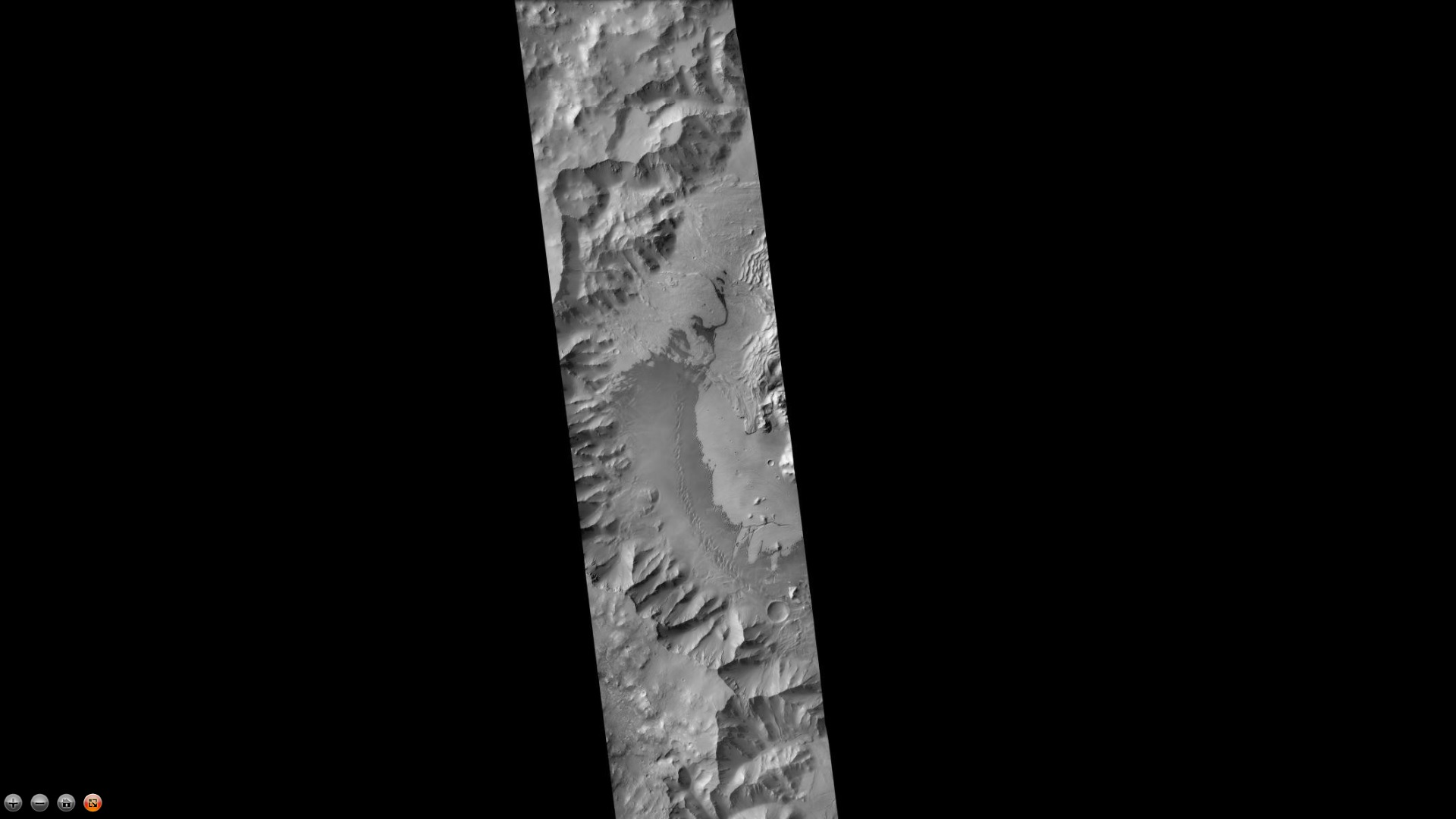 West side of Orson Welles Crater, as seen by CTX